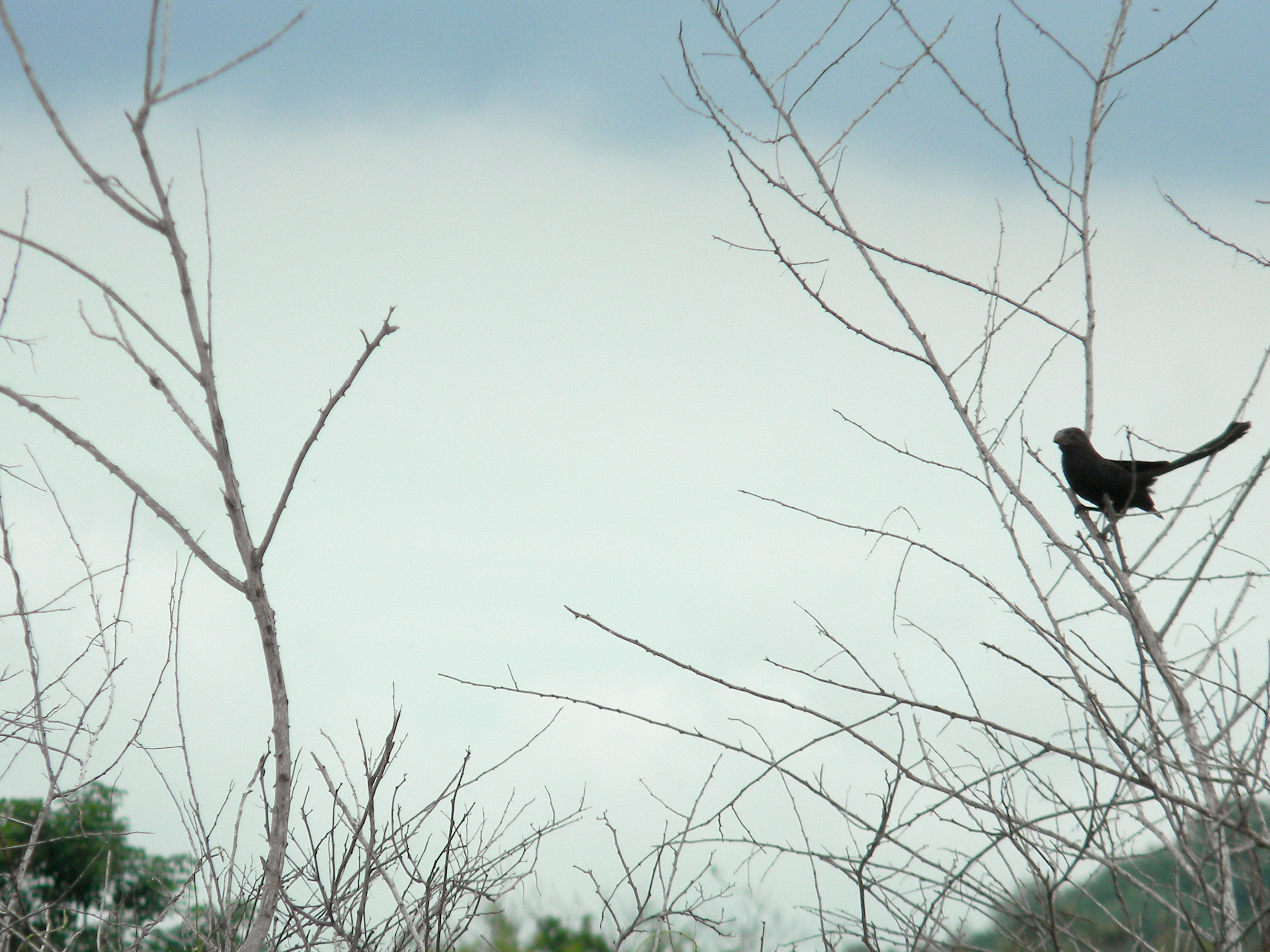 Negro Fino